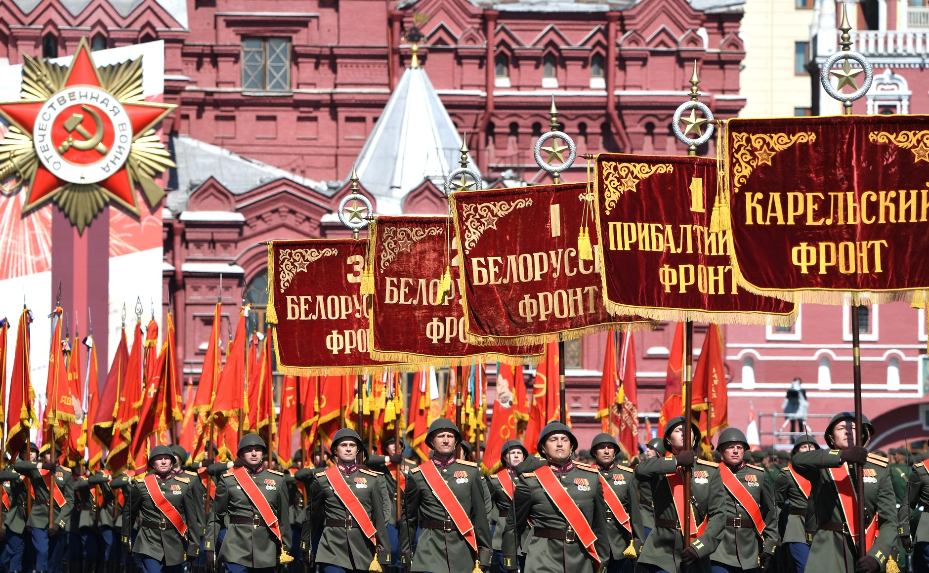 2020 Moscow Victory Day Parade Аҧсшәа: Военный парад на Красной площади в Москве 24 июня 2020 года